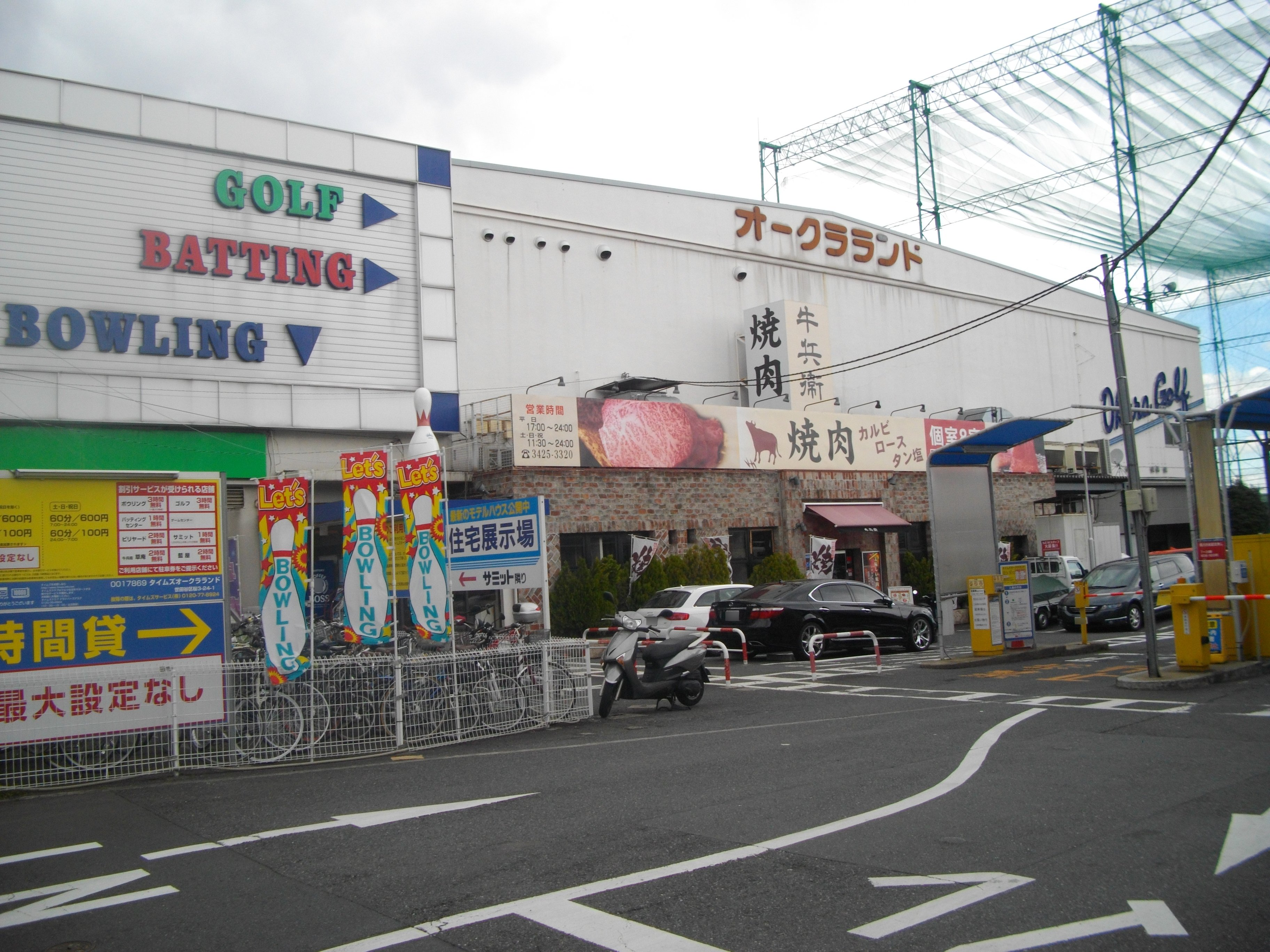 A photo of an entrance of Okura Land(a leisure facility in Tokyo.)Sakura,Setagaya-ku,Tokyo,Japan.